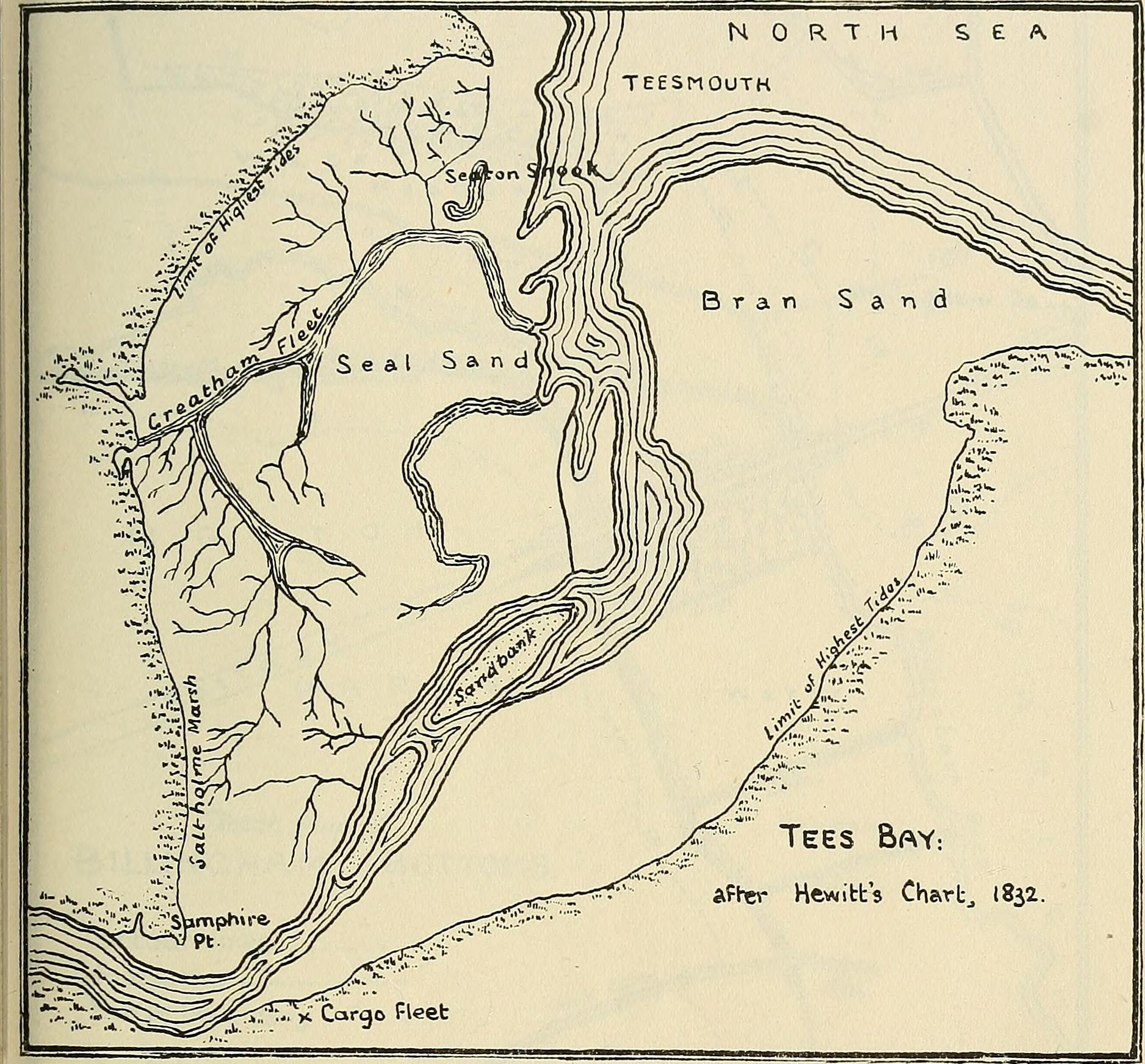 Title: Transactions of the Natural History Society of Northumberland, Durham, and Newcastle-upon-Tyne Year: 1867 (1860s) Authors: Natural History Society of Northumberland, Durham, and Newcastle-upon-Tyne Tyneside Naturalists' Field Club Subjects: Natural history Natural history Natural history Publisher: Newcastle-upon-Tyne (etc.) Text Appearing Before Image: A SURVEY OF THF. T,0\VER TEES MARSHES H3 Text Appearing After Image: Fig. 2. Hewitts Chart ot Tees Bay, A SURVEN OK in I. I.OWKK llIKS iMAKSIIICS M5